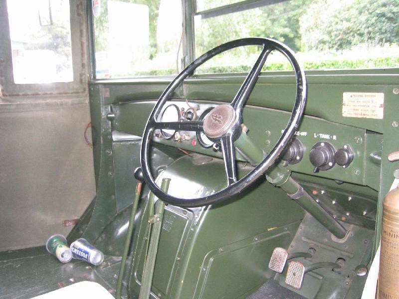 Cab of the Austin K2 complete with beer containers Deben Dave 14:09, 25 September 2007 (UTC)